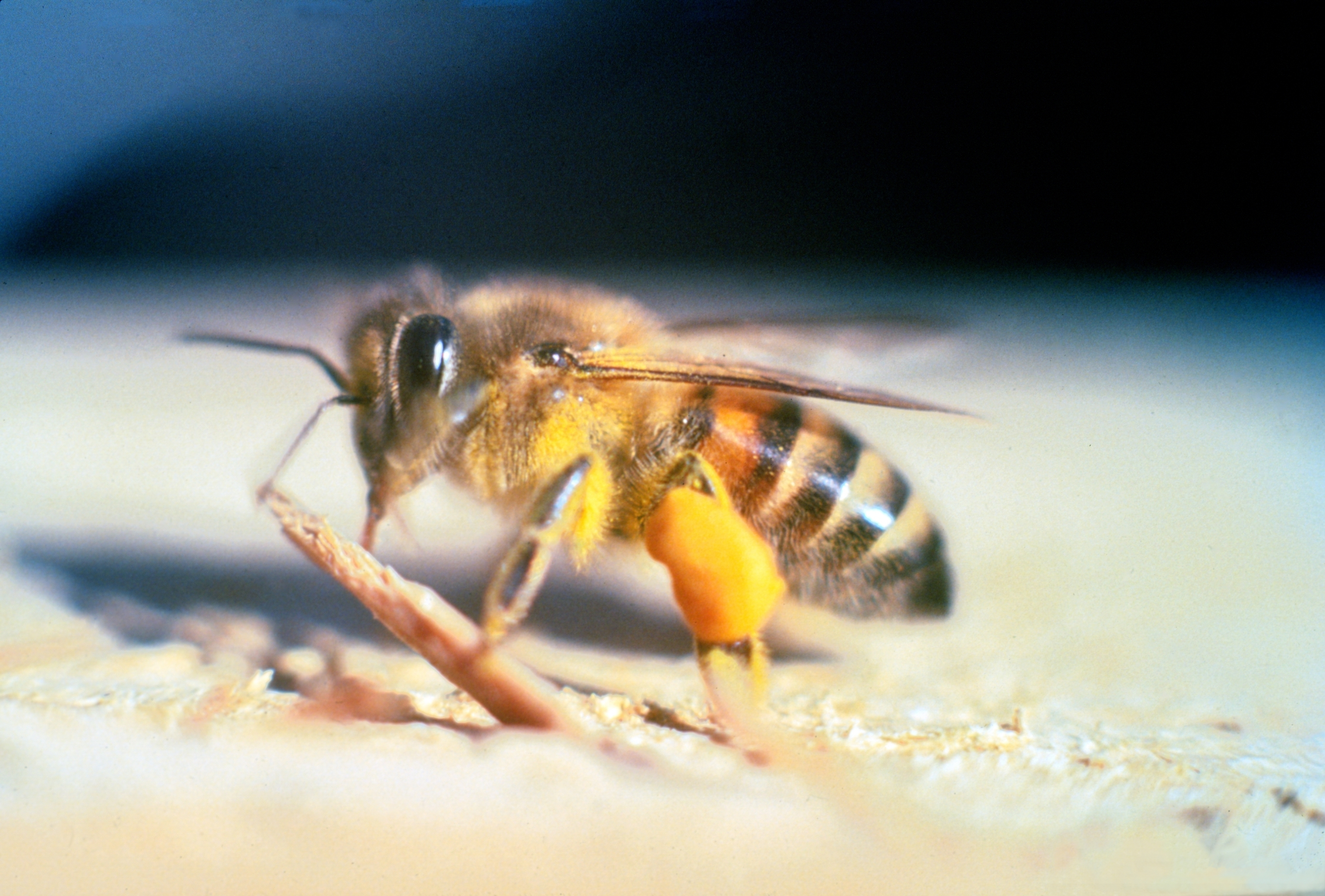 adult Apis mellifera scutellata in Florida